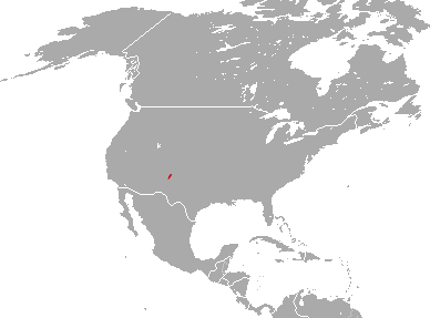 Manzano Mountain Cottontail (Sylvilagus cognatus) range